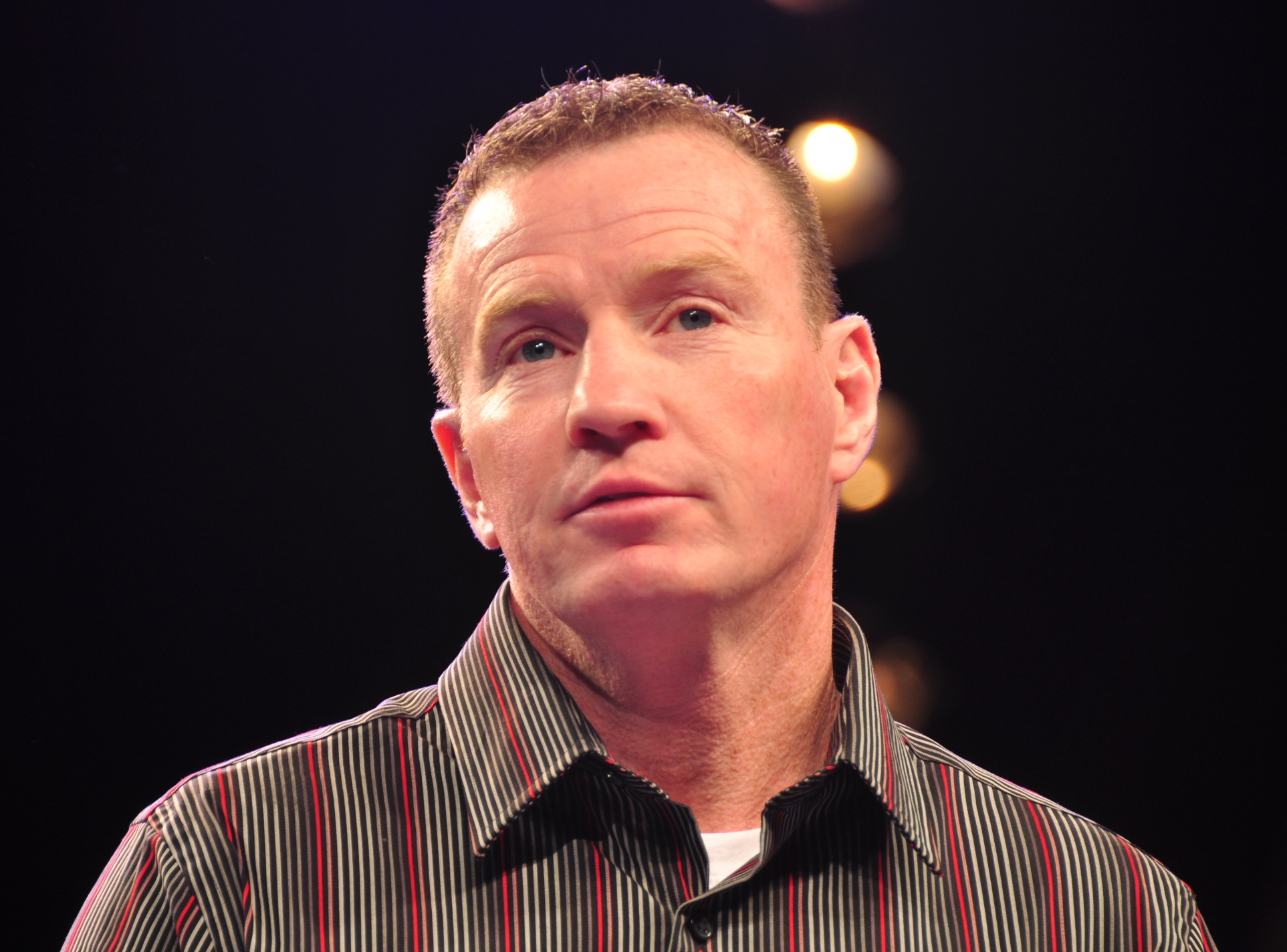 Irish Micky Ward at the River Rock Casino, Richmond, British Columbia, Canada.